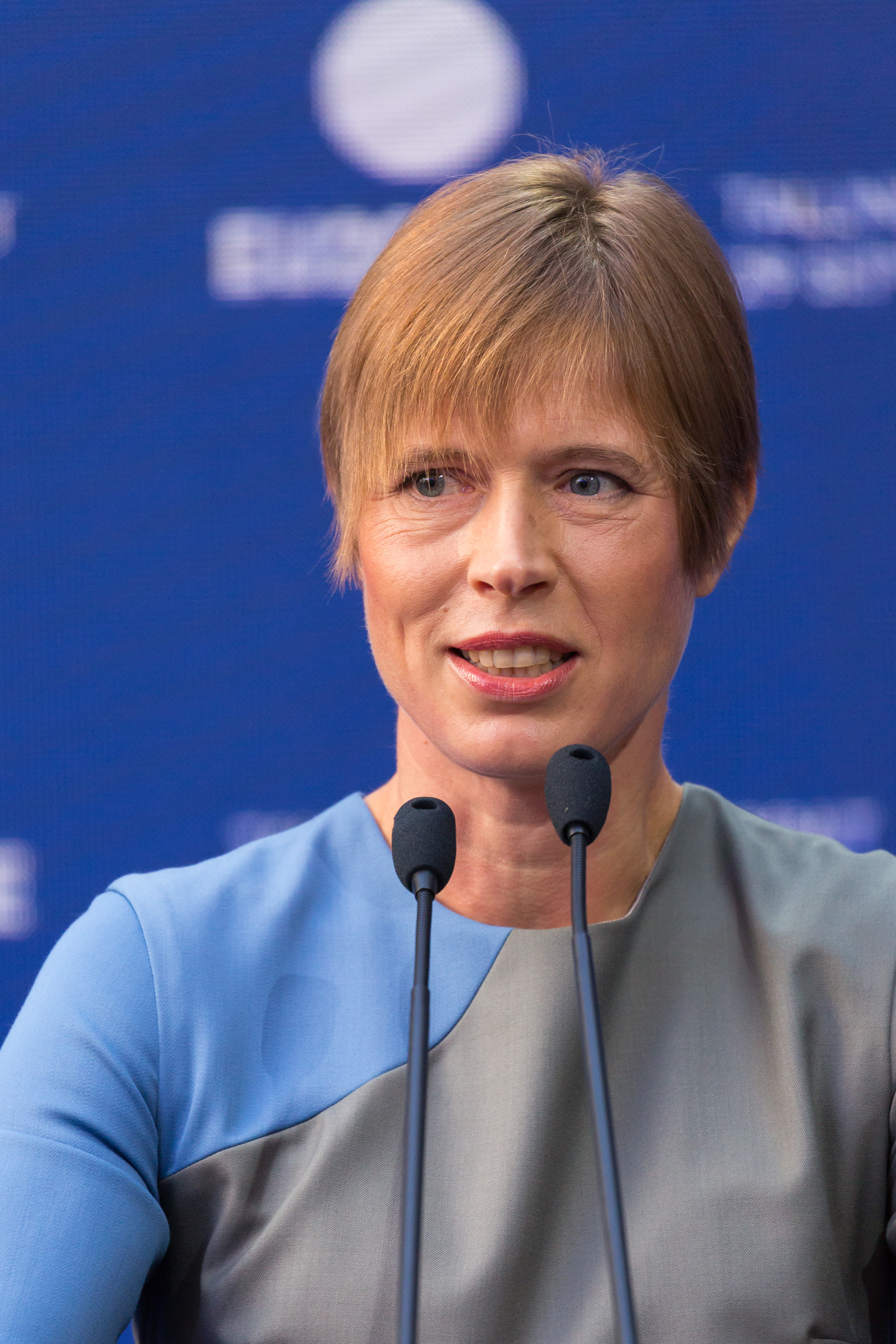 Kersti Kaljulaid, President of the Republic of Estonia Photo: Arno Mikkor (EU2017EE)